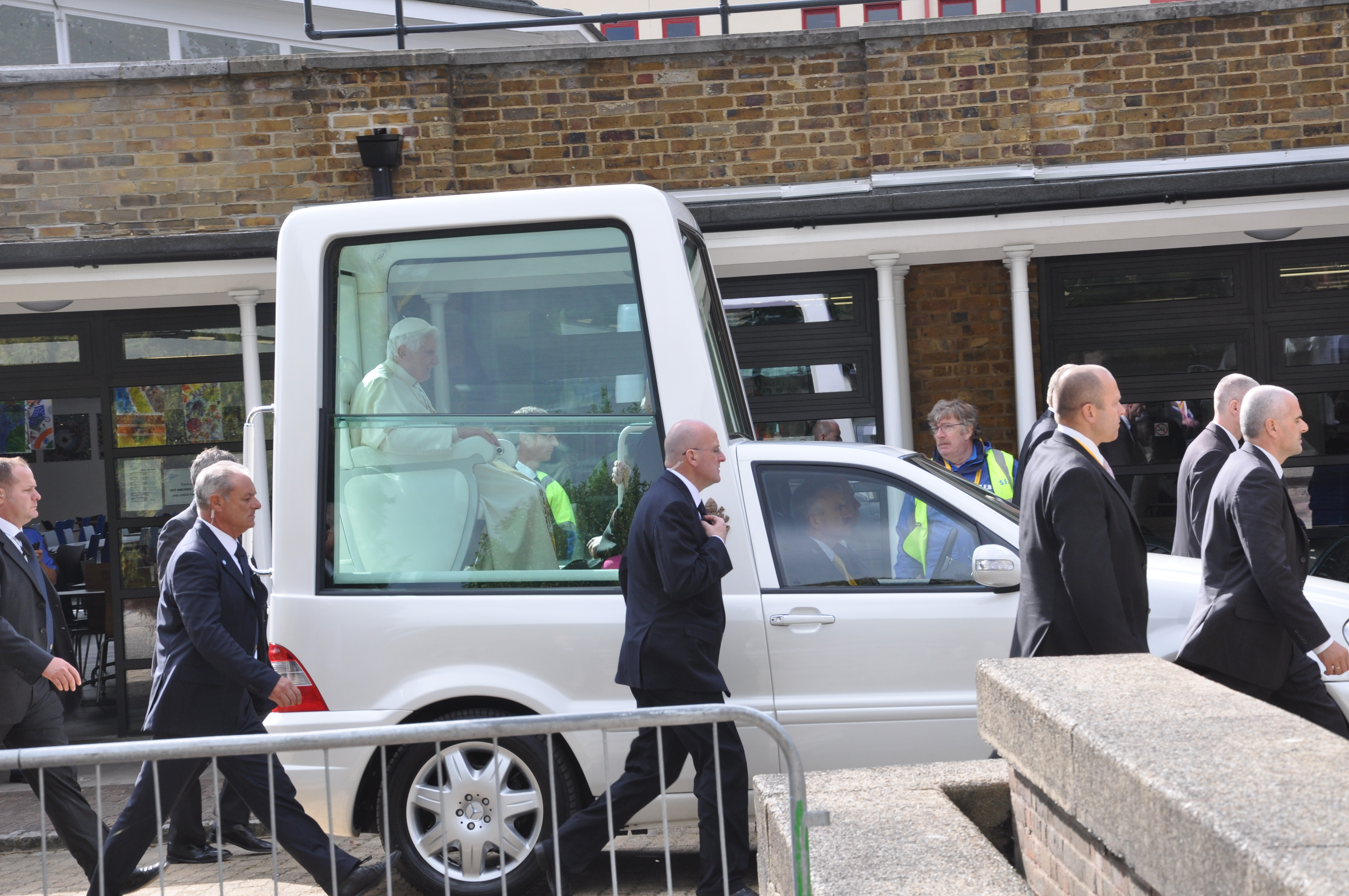 The papal visit in Westminster, London, England. Taken on the 17th of September 2010.